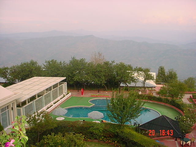 Pearl Continental Bhurban, a view of pool from gallery